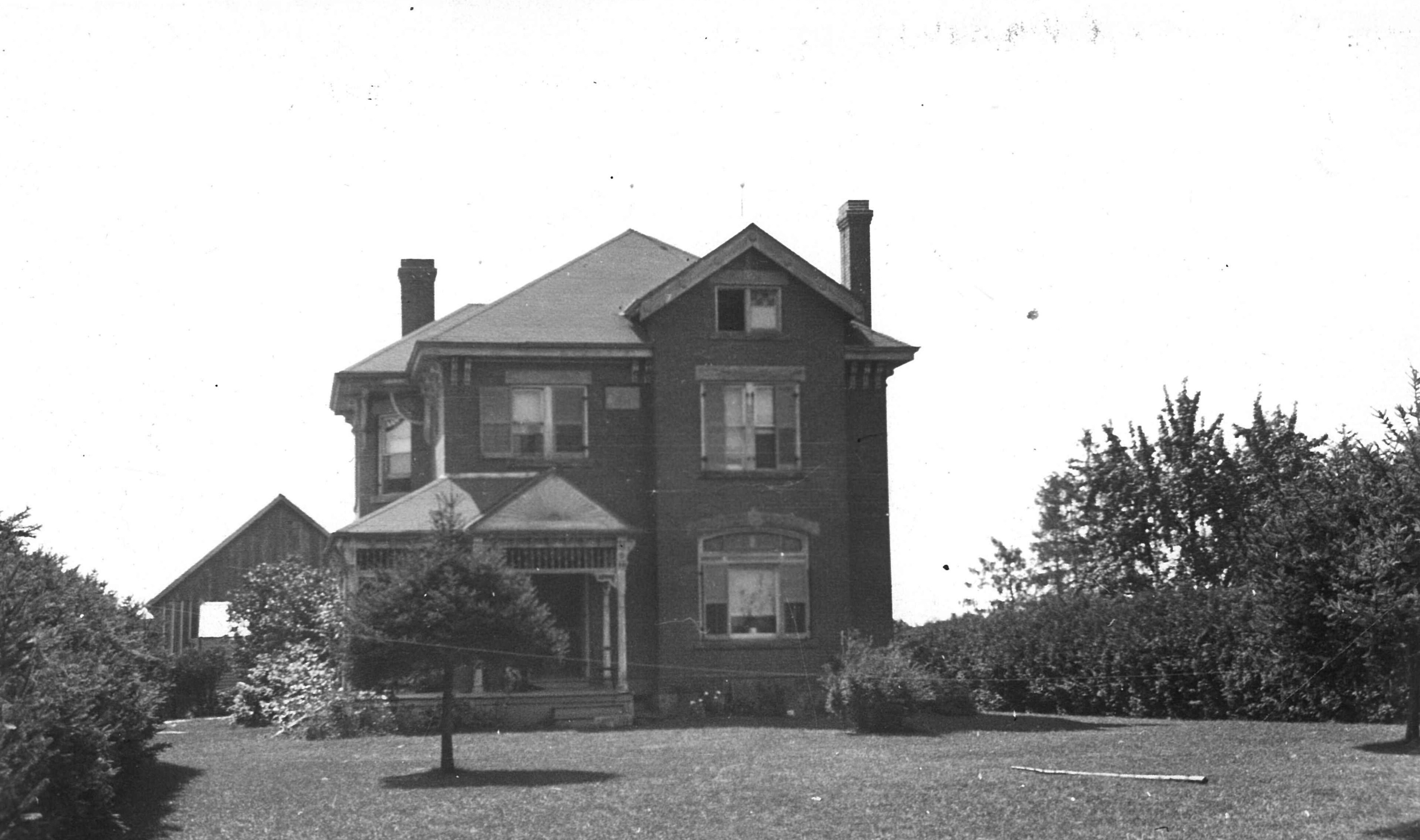 This is an image of the Chapman Farm House; one of the farms that was bought to build Malton Airport (later Pearson International Airport - Toronto).